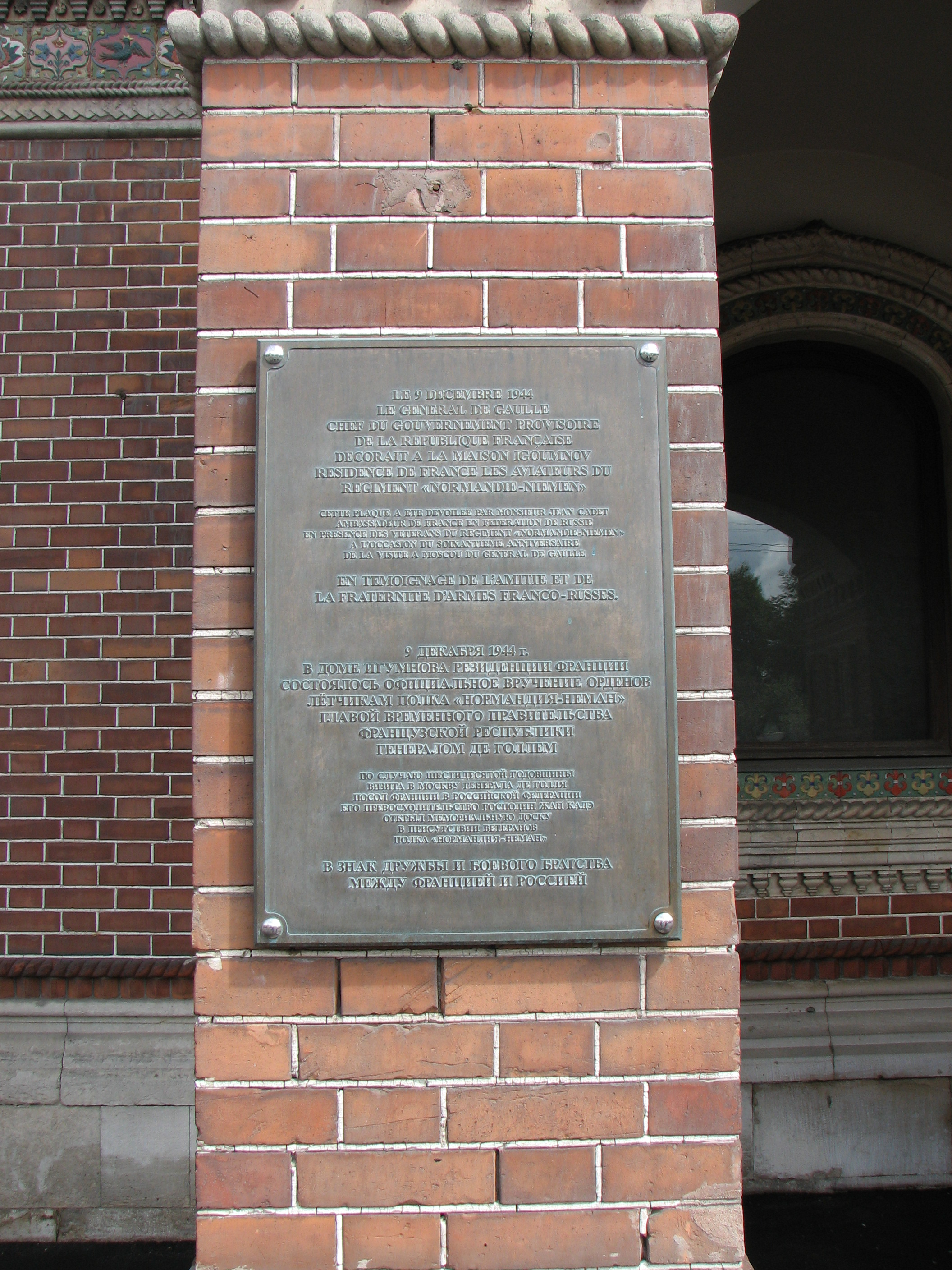 Plaque on Igumnov House (French embassy in Moscow) to celebrate the Normandie-Niemen squadron pilots distinction by General De Gaulle in this place in sept. 1944.